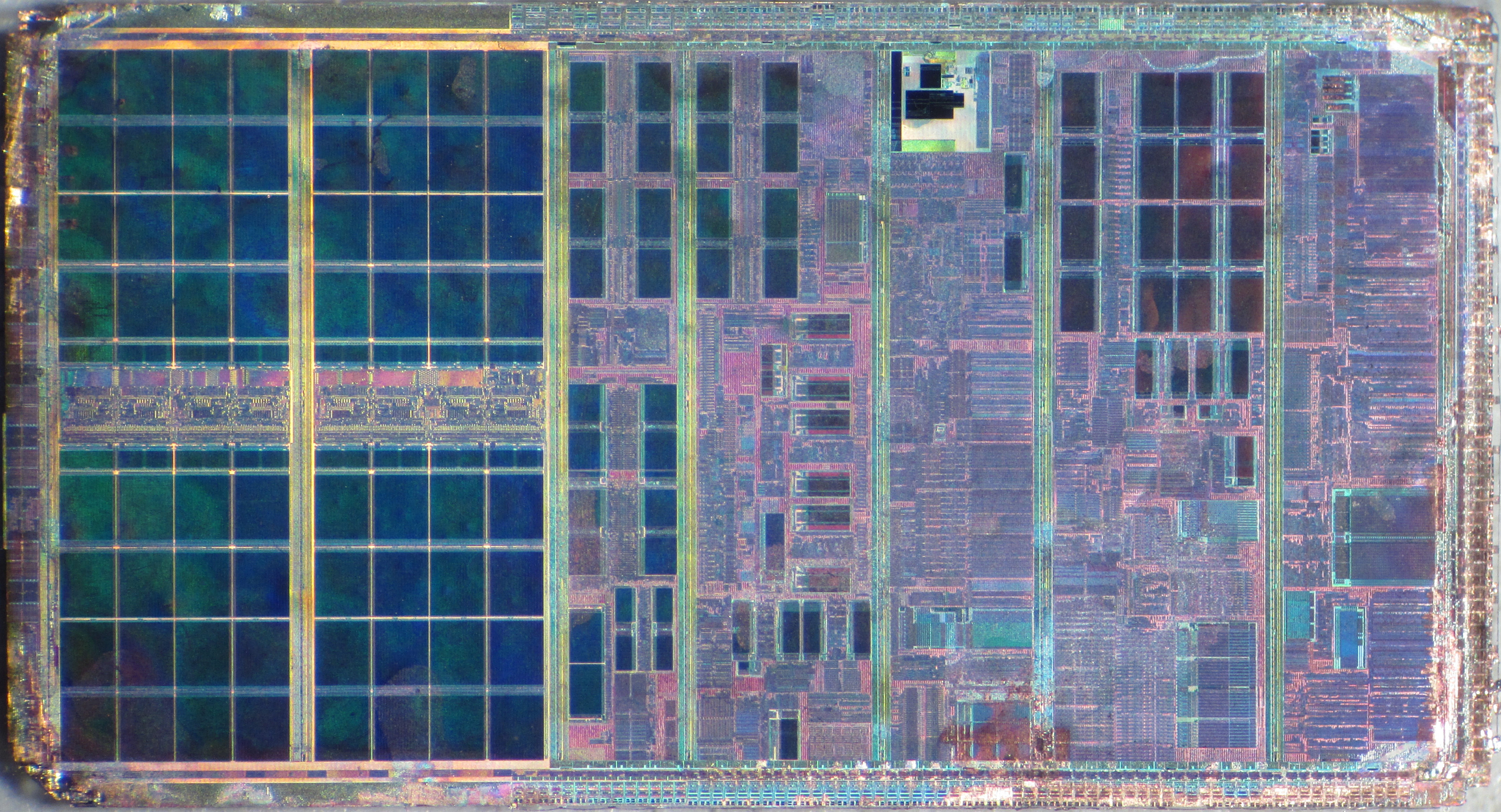 Die shot of AMD Athlon XP microprocessor with Barton core (AXDA2500DKV4D).